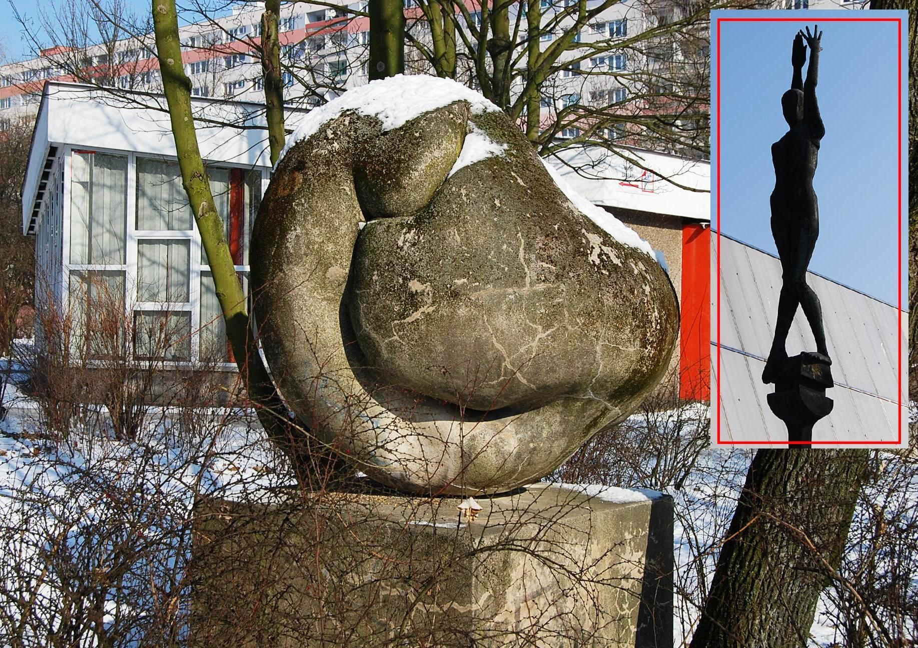 Sculptures in Poznan - Piastowskie District.